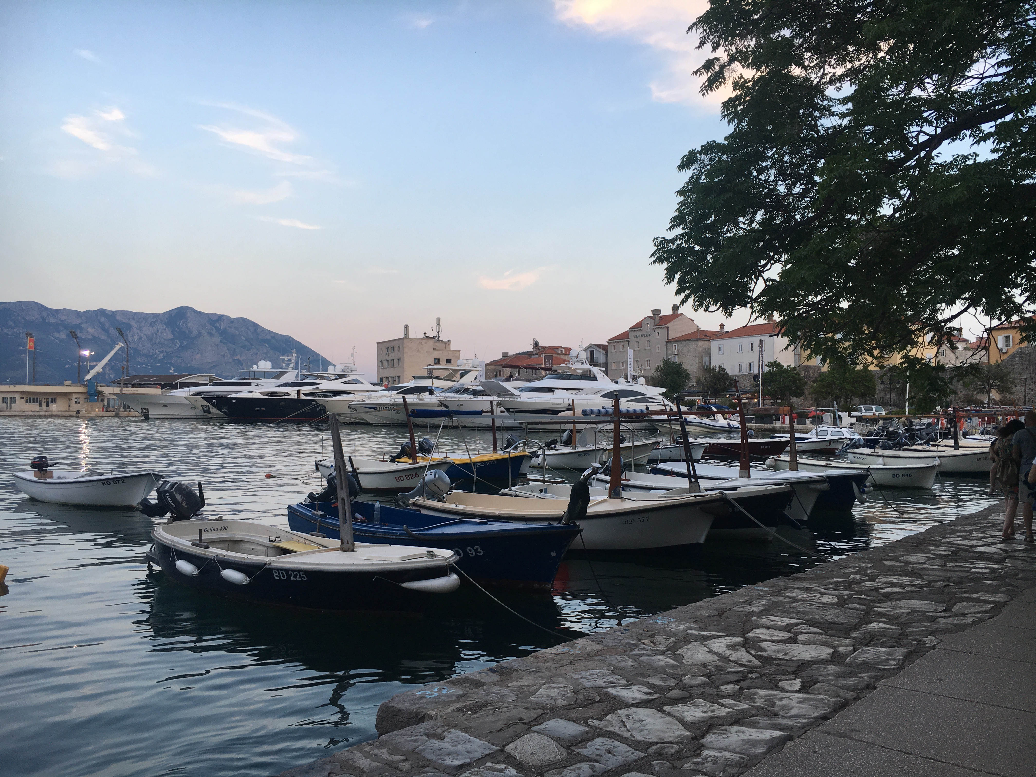 Marina of Budva